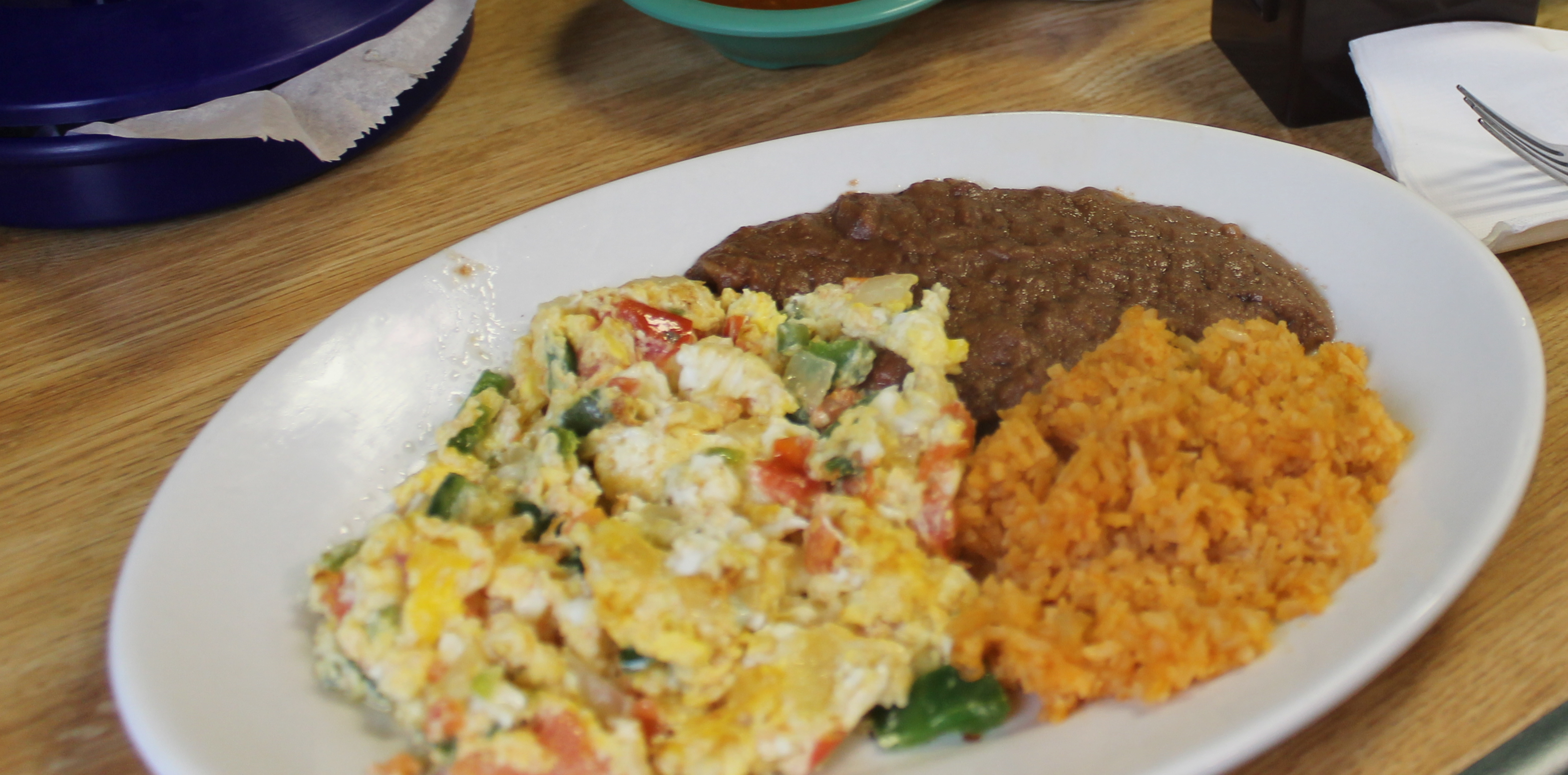 Casa del Pueblo, our favorite meal! With corn tortillas and coffee for Steve and an orange juice for me.